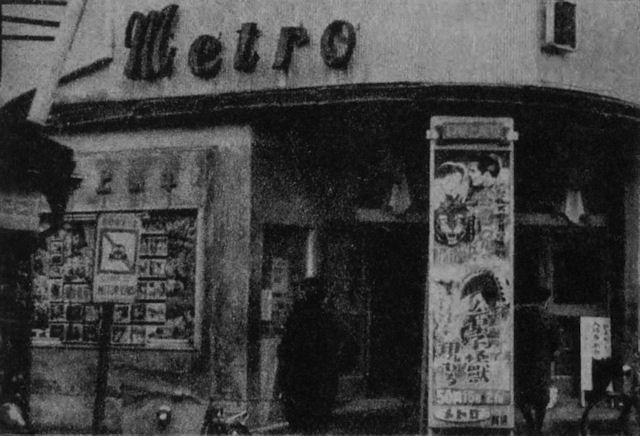 Movie theater "Metro Gekijō" Fukui, Japan